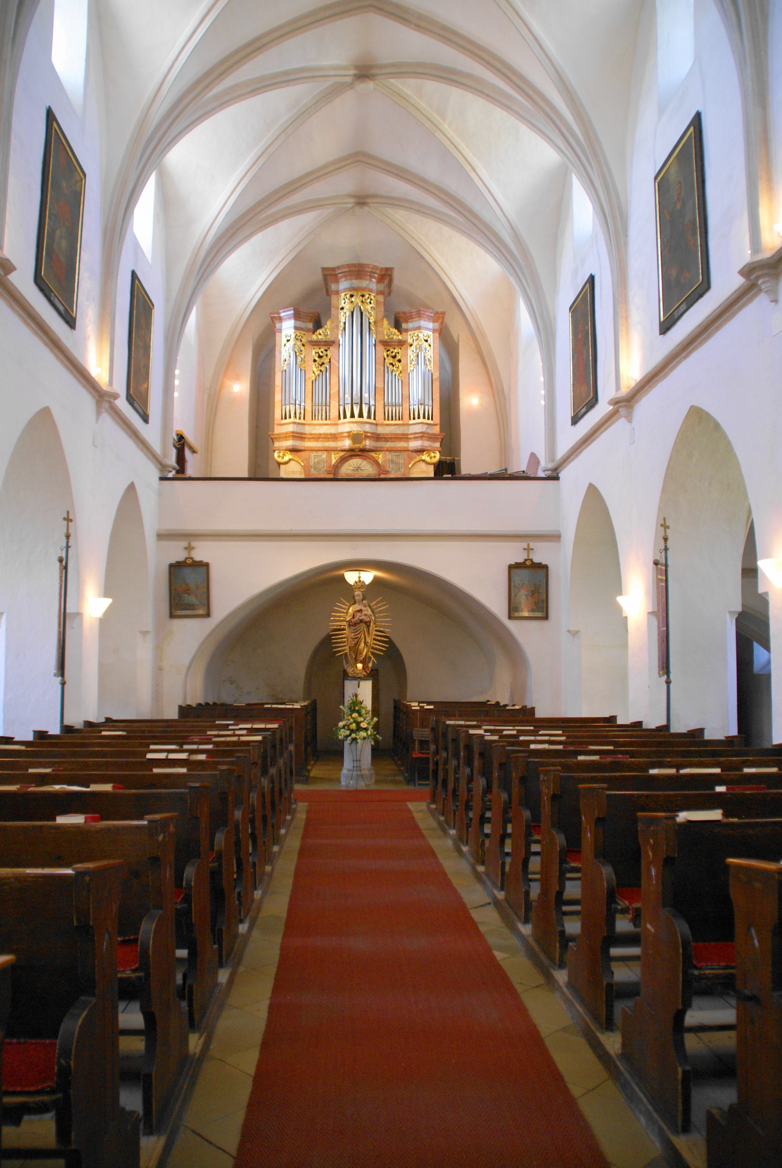 gotik church from kleinhain, near st.pölten, lower austria, origin 11./12. century, doupleside Madonna with Child